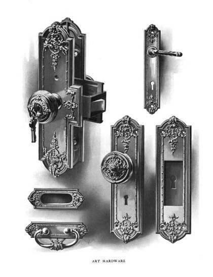 Examples of decorative hardware fabricated at the P&F Corbin Company in New Britain, Connecticut